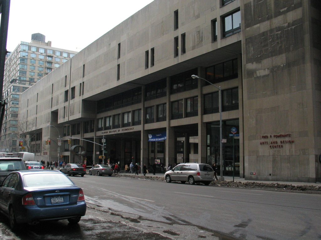 The main entrance to the Fashion Institute of Technology